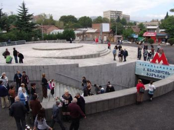 Metro Tsereteli Outside the station - Tbilisi